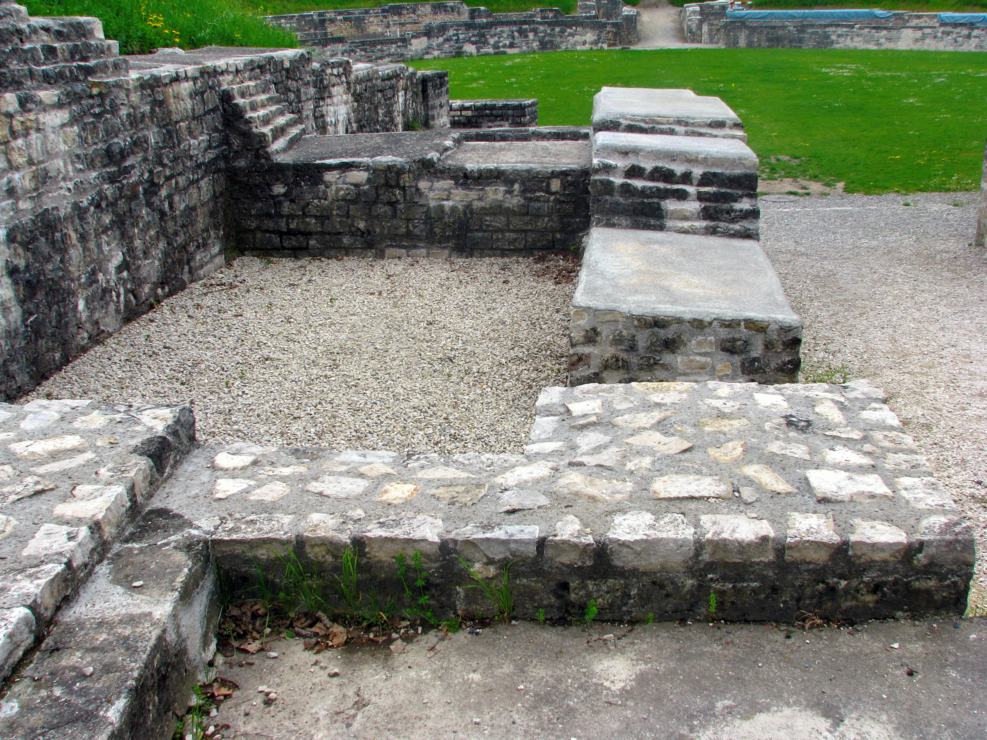 Amphitheatre in Windisch (Switzerland)